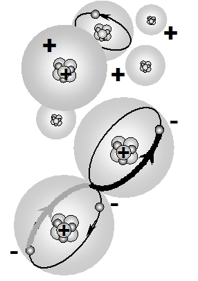 Jumping of Electron